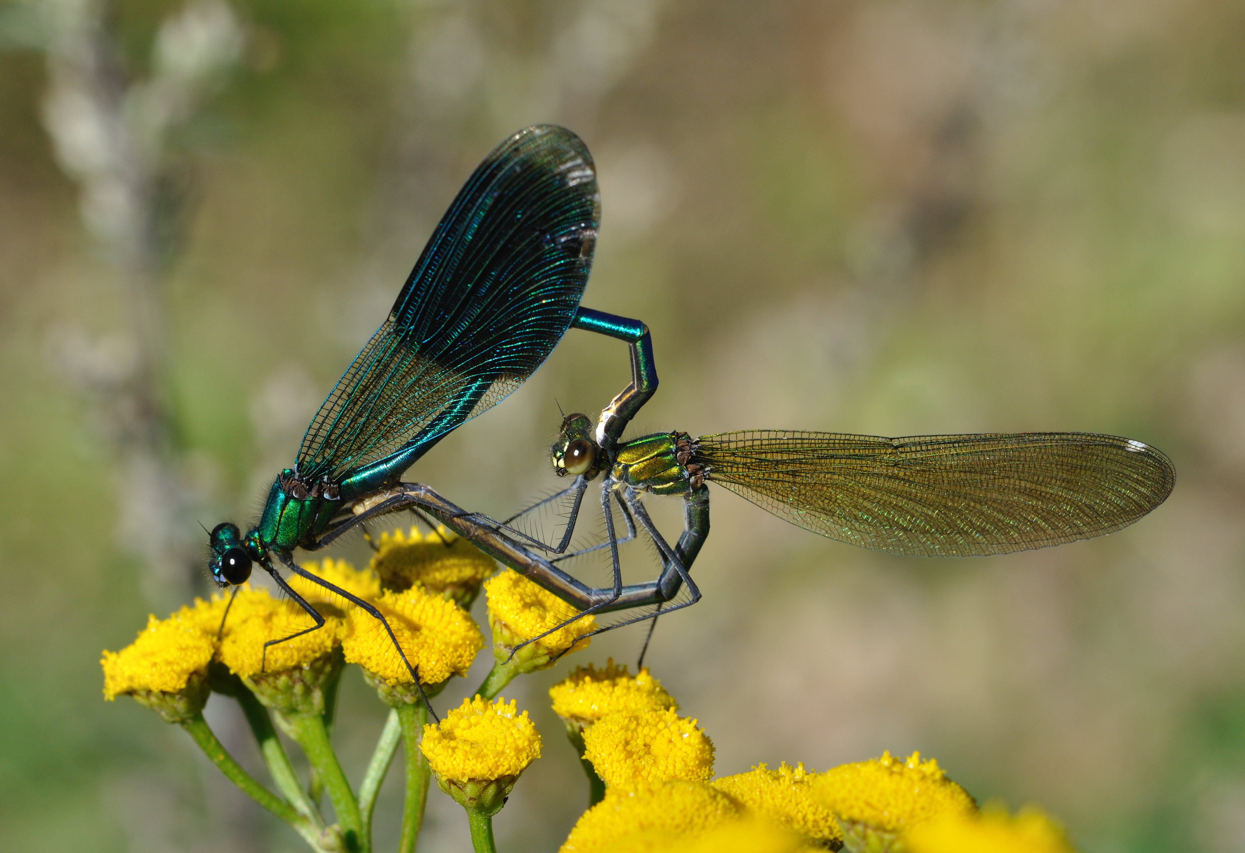 Mating wheel of Banded Demoiselles (Calopteryx splendens) near the old airstrip, Frankfurt, Germany.